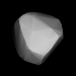 3D convex shape model of 1999 Hirayama, computed using light curve inversion techniques. J. Hanuš, J. Ďurech, M. Brož, B. D. Warner (June 2011). "A study of asteroid pole-latitude distribution based on an extended set of shape models derived by the lightcurve inversion method". Astronomy and Astrophysics 530: A134. ISSN 0004-6361. arXiv